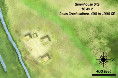 Greenhouse Site, 16 AV 2, built by the Troyville andColes Creek cultures, 400 to 1000 CE. All rights held by the artist, Herb Roe © 2017.